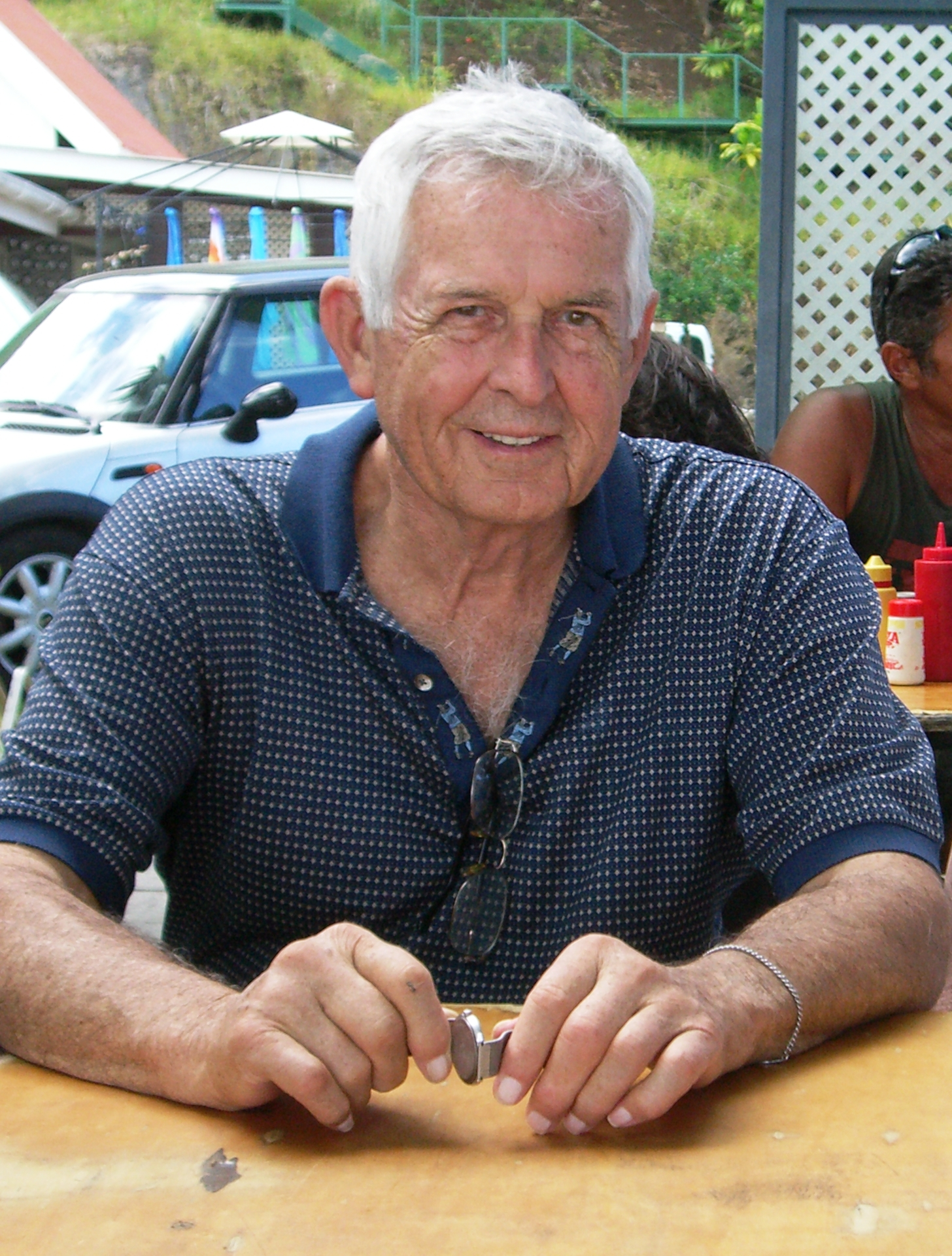 Geoffrey Ballard, CM, OBC, founder of Ballard Power Systems and father of the fuel cell industry.